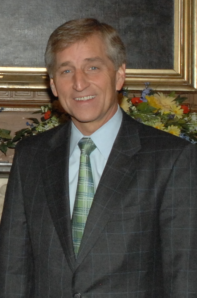 Secretary Dirk Kemmpthorne [meeting at Main Interior] with Mark Racicot, [President of the American Insurance Association, former Governor of Montana]